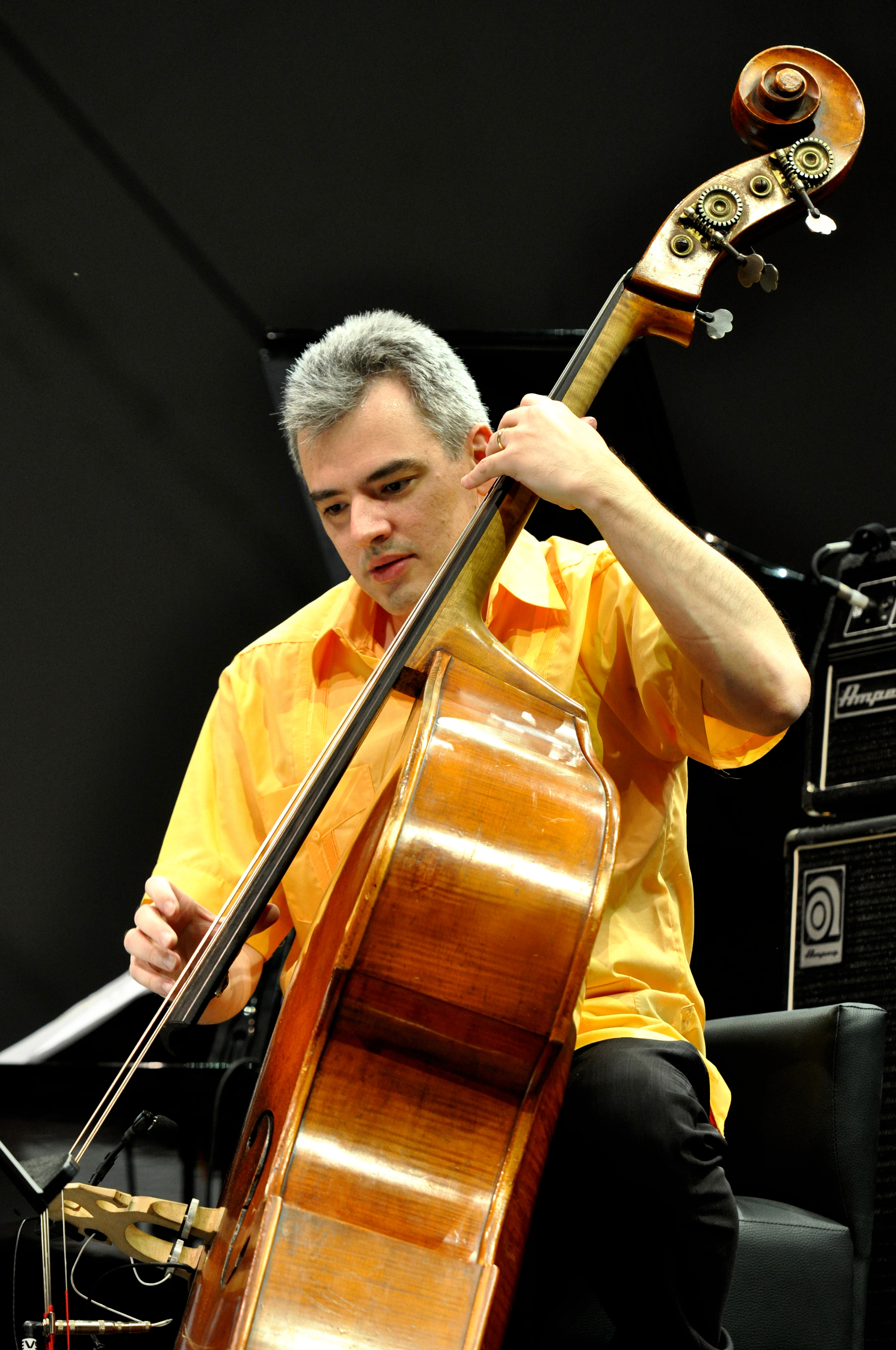 Trio Corrente feat. Paquito D'Rivera (BRA/CUB), World Music Festival Horizonte 2015, Ehrenbreitstein Fortress, Koblenz, Rhineland-Palatinate, Germany Festivalsommer This photo was created with the support of donations to Wikimedia Deutschland in the context of the CPB project "Festival Summer".